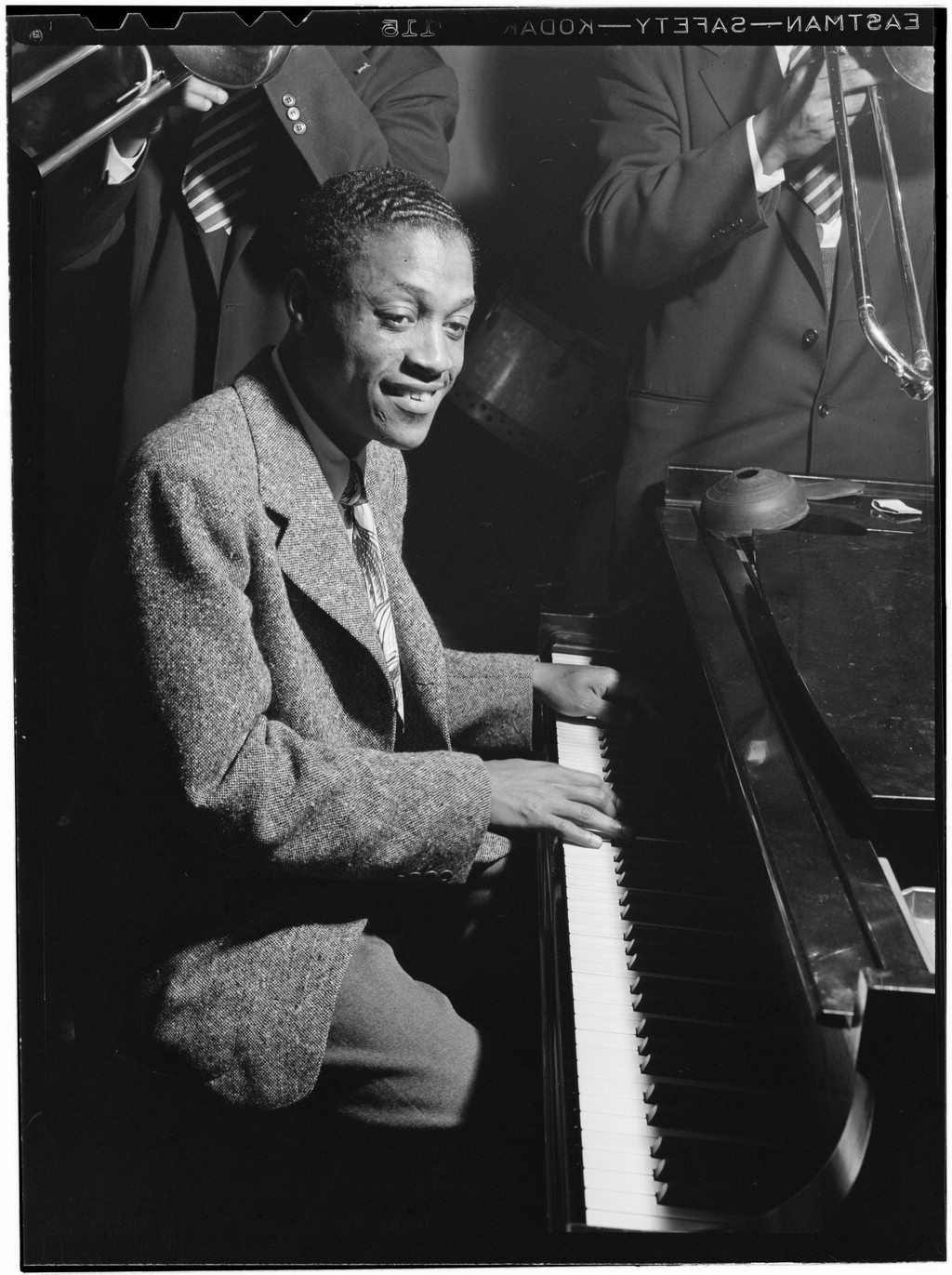 Eddie Heywood, Three Deuces, NYC, ca. July 1946. Photograph by William P. Gottlieb